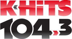 "K-HiTS 104.3" logo for 104.3 WJMK Chicago. Slogan cropped off and quick transparency added with the Gimp; didn't bother trying to figure out alpha levels of semitransparent semiwhite pixels. Compressed with optipng -o6 followed by PNGOUT -r -n4 -f0